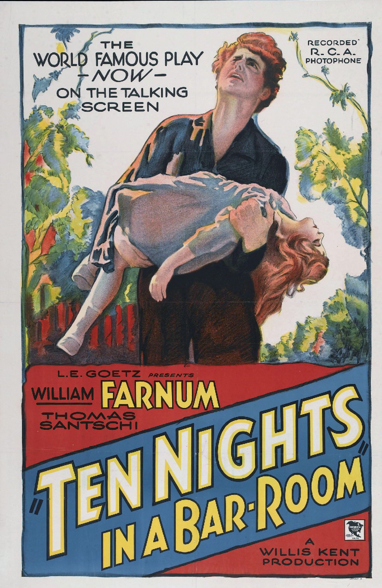 Poster from the 1931 film Ten Nights in a Barroom.